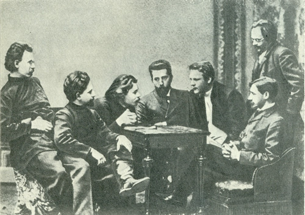 Group of participants of «wednesday». From left to right: S.G.Skitalets, L.N.Andreev, M.Gorky, N.D.Teleshov, Russian bass, Feodor Chaliapin (1873 - 1938), I.A.Bunin, E.N.Chirikov, 1902